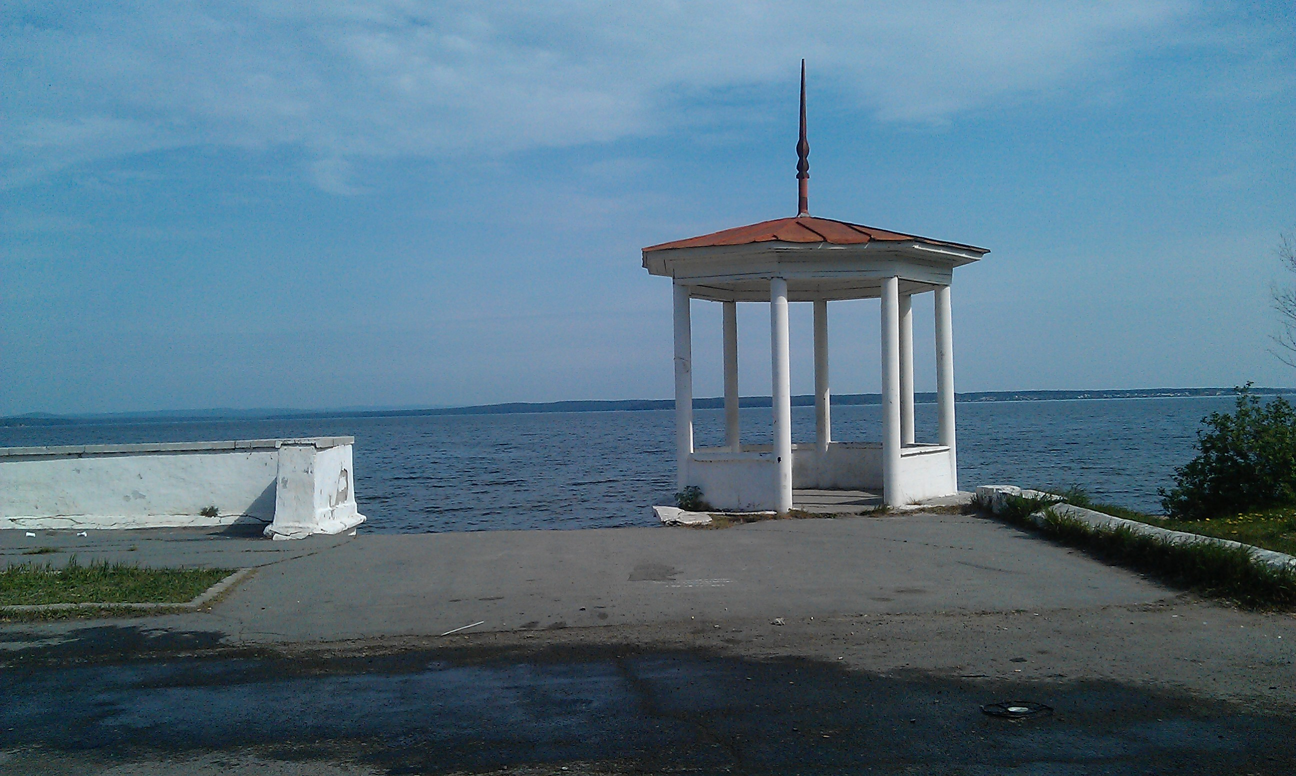 Беседка на городском пляже (Снежинск)